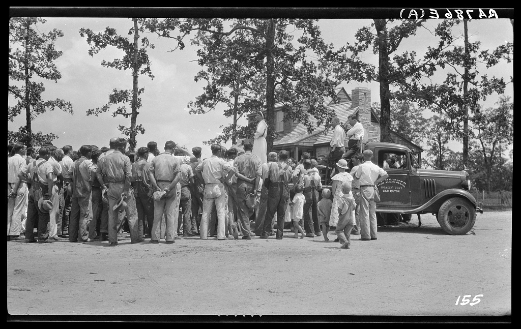 U.S. First Lady Eleanor Roosevelt addressing the Cumberland Homesteaders near Crossville, Tennessee, USA, in late 1935. An early New Deal project.